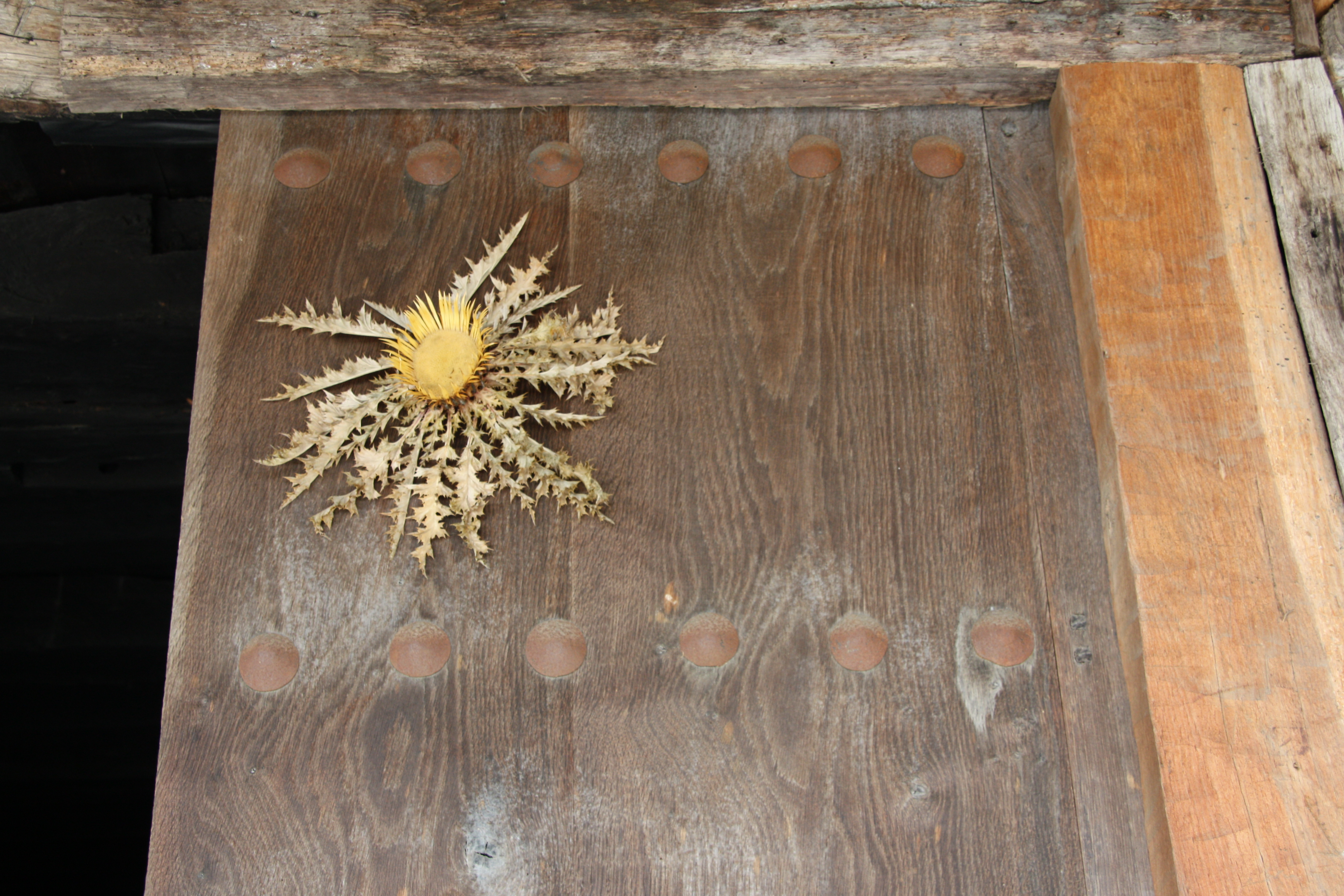 An silver thistle (Carlina acaulis, eguzkilore) on the door of a Basque farmhouse (baserri)